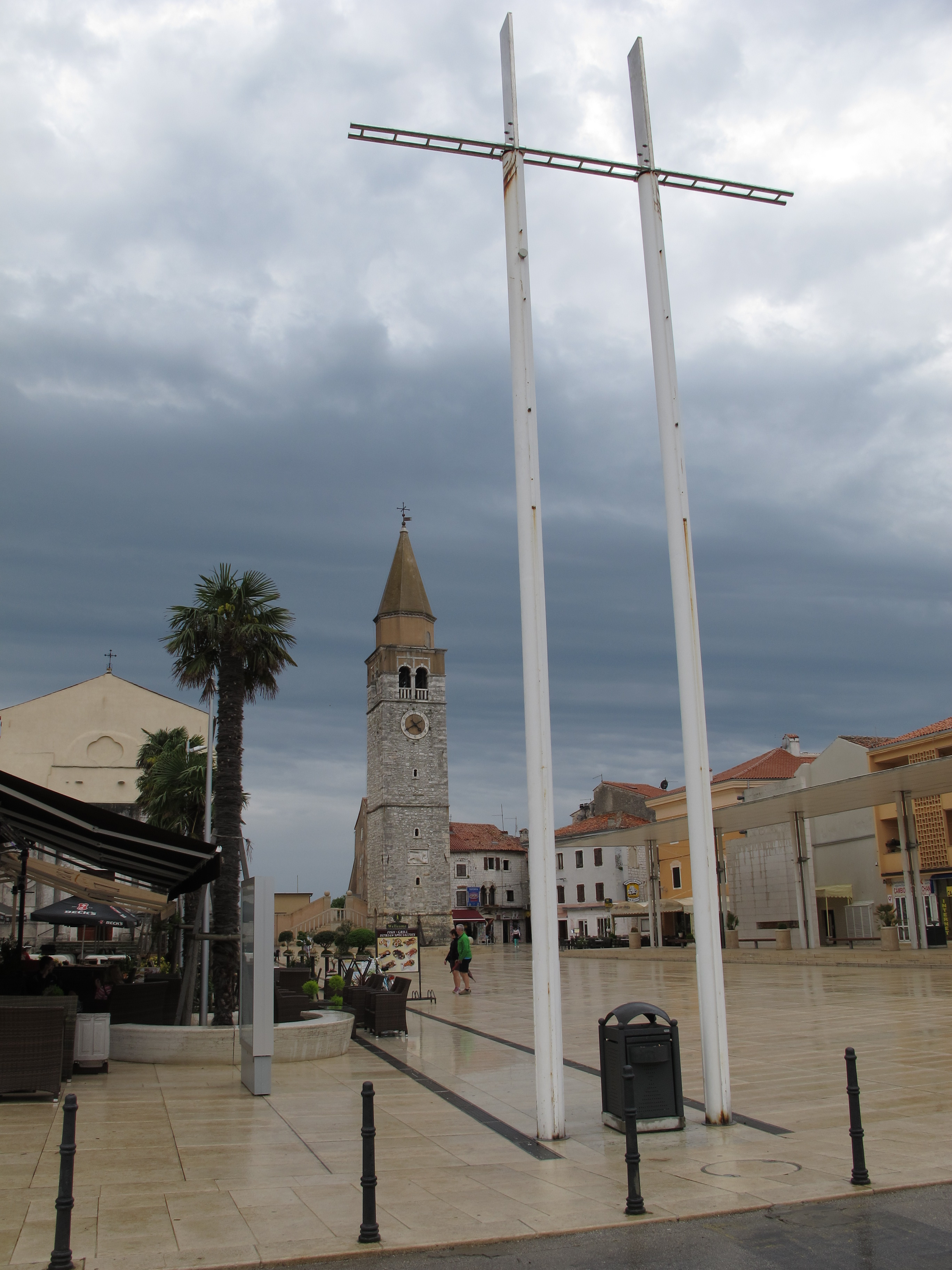 Umag